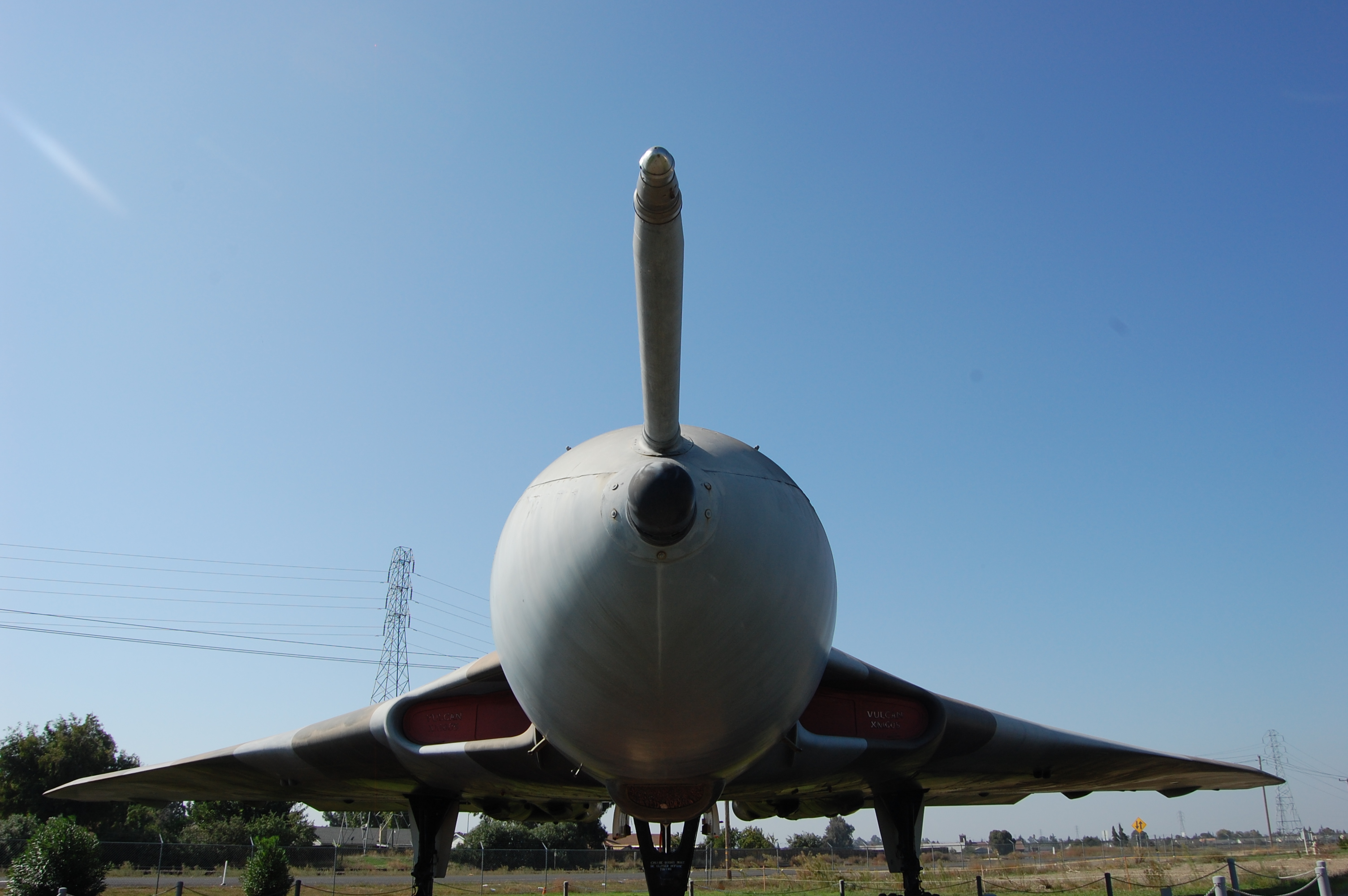 An RAF Avro Vulcan on display at Castle Air Museum